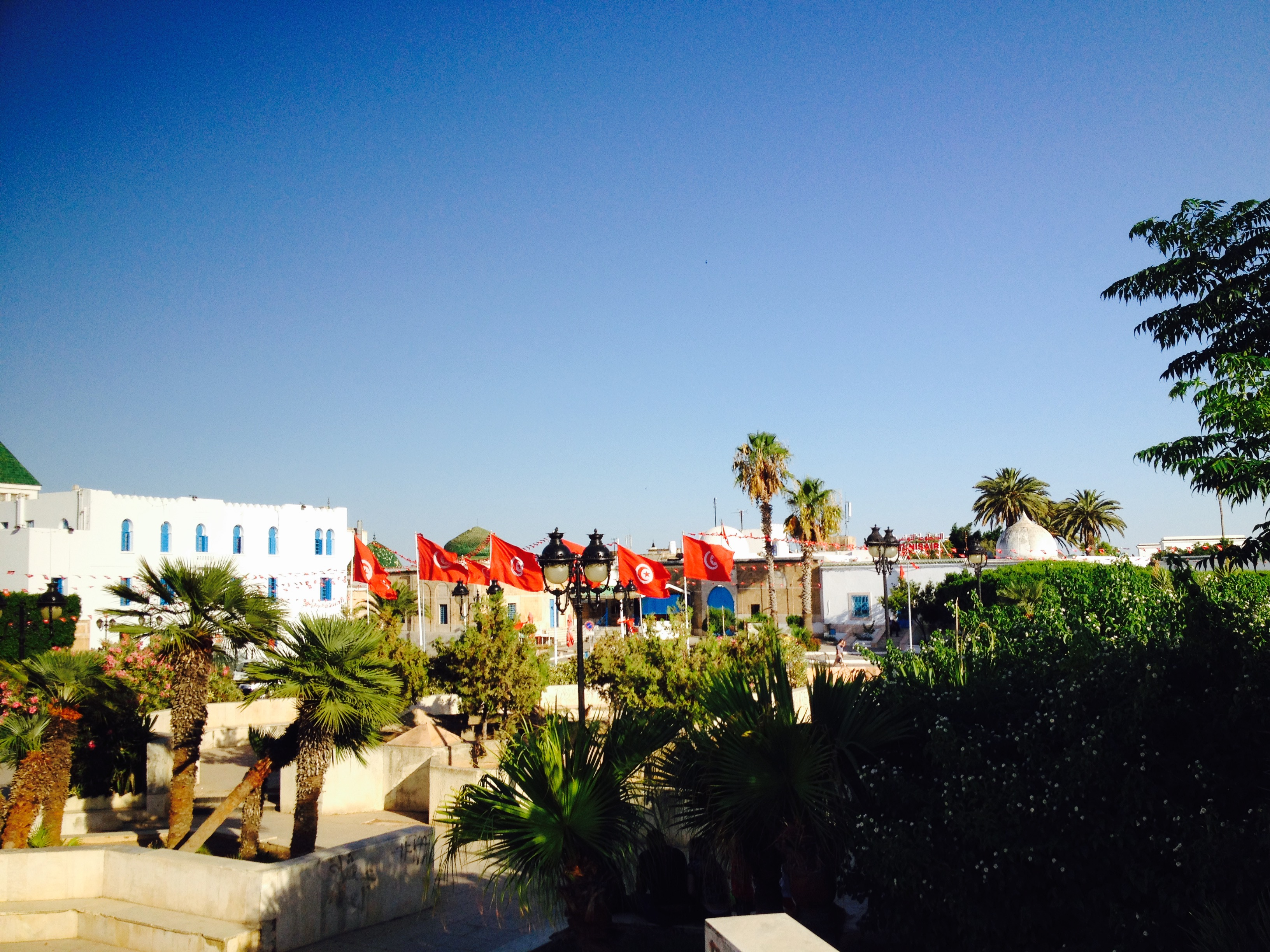 La Kasbah in Tunis represents the second most important Tunisian political center as it host several ministries headquarters as well as the Prime Minister's office